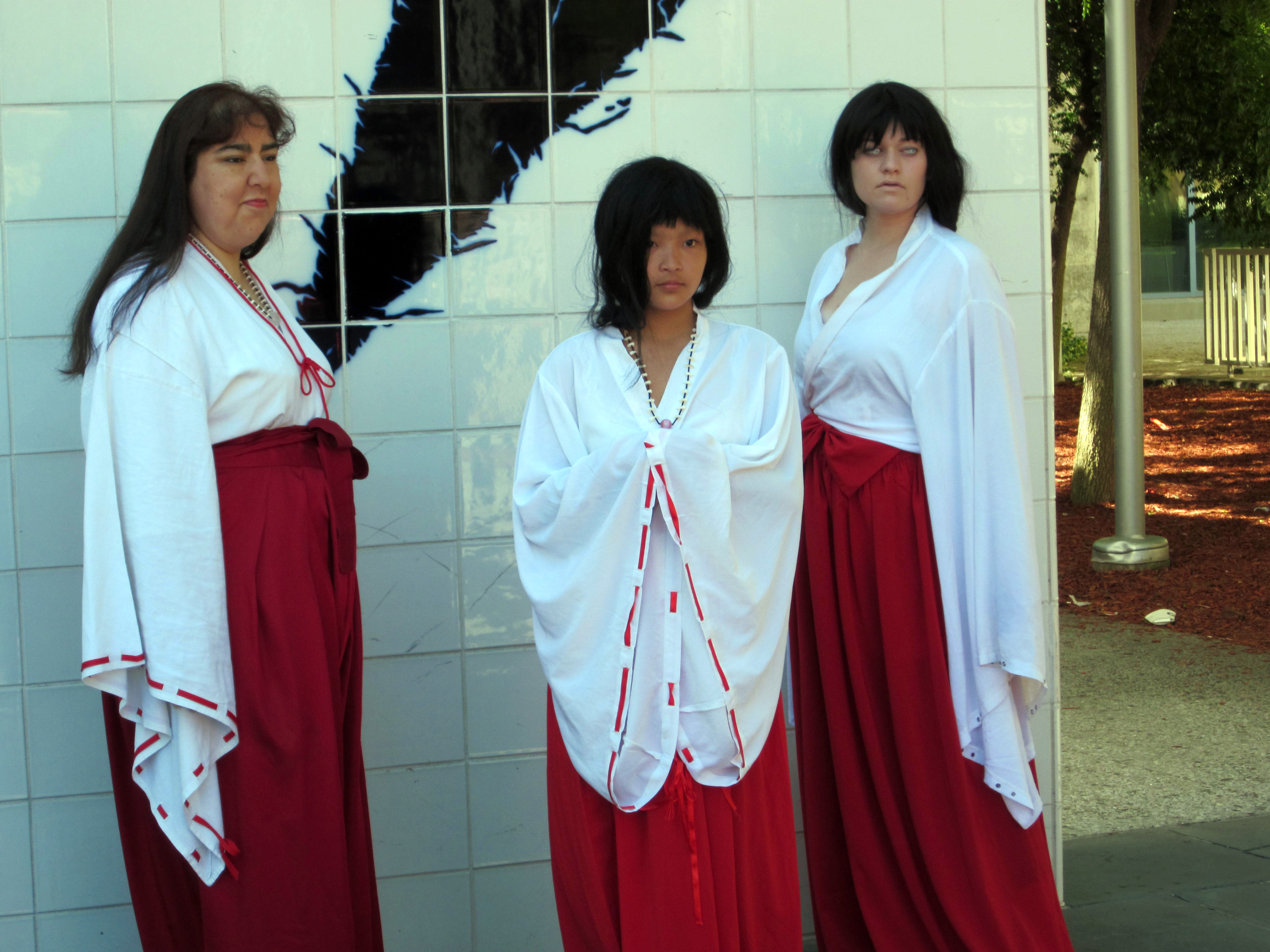 Cosplayers portraying Kagome Higurashi from InuYasha at FanimeCon 2010 in San Jose, California.